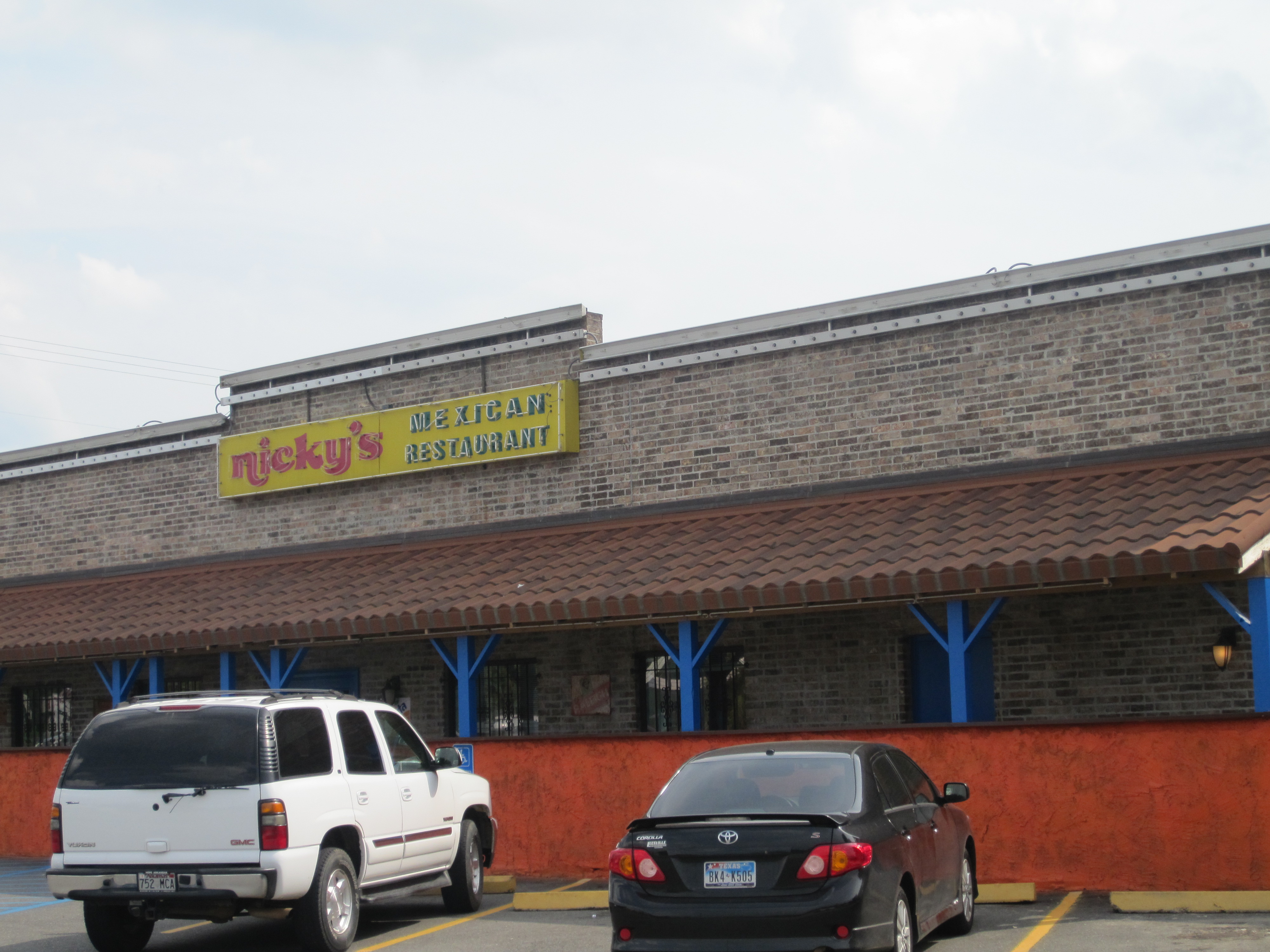 Mexican restaurant in Minden, Louisiana.